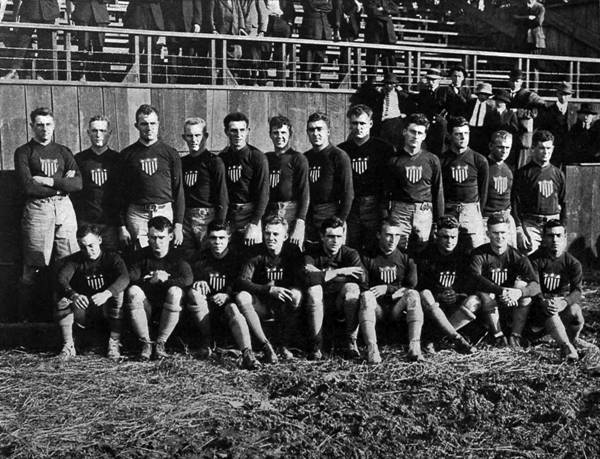 The USA side that played Australia in 1912. Back Row (L-R) Guerin (Olympic RFC) (not used), Robert Howe Fletcher (University of California) (not used), William Norris King (University of California), Chris Martin Momson (Santa Clara University), Karl Ludwig Schaupp (Stanford University), Frank Jacob Gard (Stanford University), James Lee Arrell Olympic RFC), Warren L. Smith (Stanford University), Chester Arthur Allen (University of California), Eugene Francis Kern (Stanford University) (not used), Glasscock (Olympic RFC) (not used), Phillip Frederick Harrigan(Stanford University). Front Row: Charles Allphin Austin (Olympic RFC), Augustus Mudge Sanborn (Stanford University), Joseph Louis McKim (University of California), Stirling Benjamin Peart (University of California), Laird Monterey Morris (University of California) (Captain), Benjamin Edward Erb (Stanford University), Ralph Matthews Noble (Stanford University), Louis Cass (Stanford University) (not used) , Bertram Risling (Stanford University) (not used).